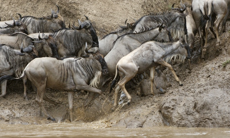 Crossing of the Mara River - part of the wildebeasts' annual migration Masai Mara, Kenya August 2008 690V1755